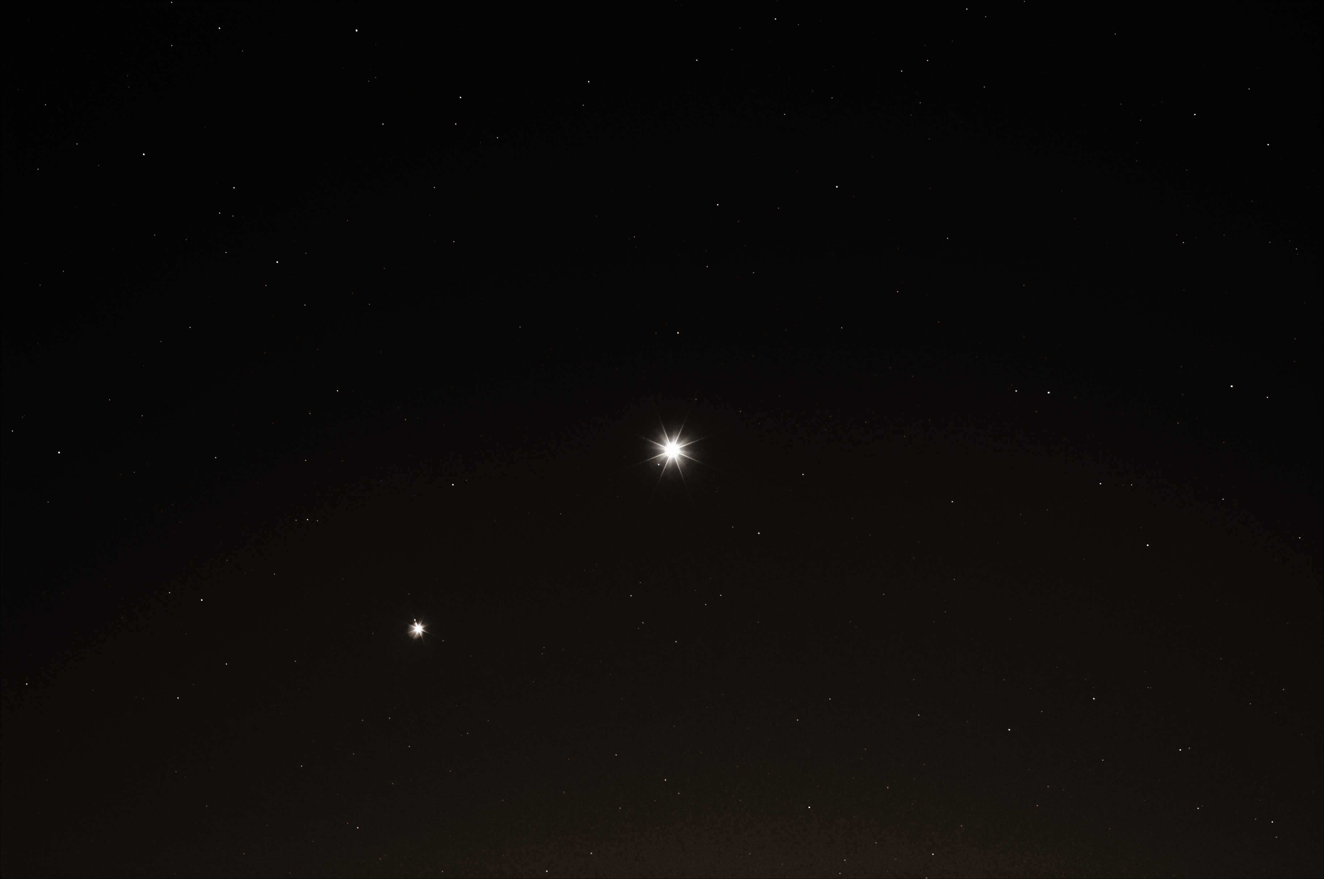 This photograph was taken with a Nikon D300 This image depicts a section of the night sky. A bot was notified to identify the stellar objects visible in the frame using . Jupiter et Vénus Paramètres de prises de vue : 52 photos : 1.6 secondes de pose, f/3.5, ISO 800 , objectif 105 mm 13 darks : même paramètres de prise de vue. 13 offsets : même paramètres de prise de vue, temps de pose : 1/8000 s. Tout a été compilé avec DeepSkyStacker.